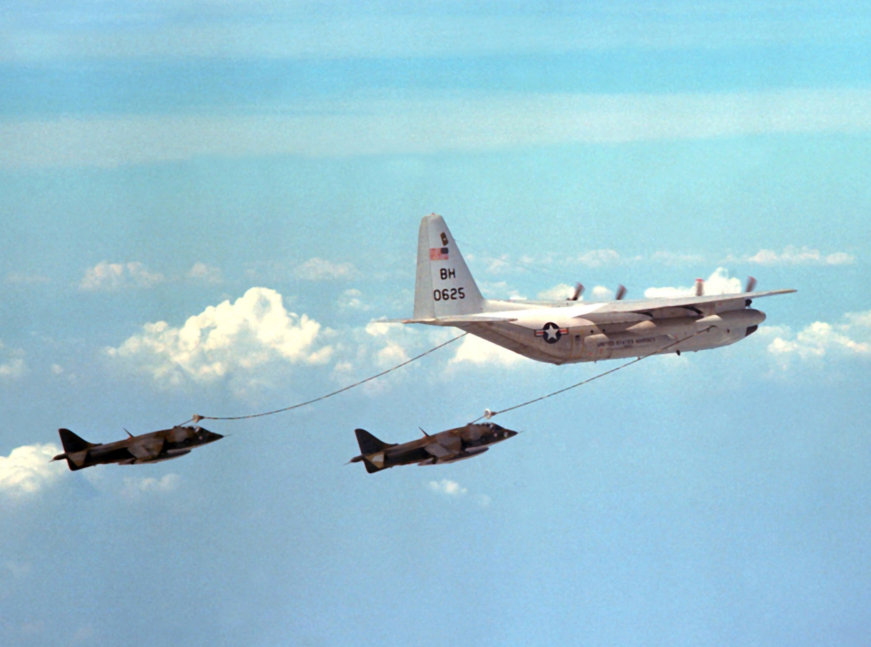 Two U.S. Marine Corps Hawker Siddeley AV-8A Harrier aircraft receive fuel from a Marine Refueler-Transport Squadron 252 (VMGR-252) Lockheed KC-130R Hercules aircraft (BuNo 160625) during a flight out of Marine Corps Air Station, Cherry Point, North Carolina (USA), in 1978.